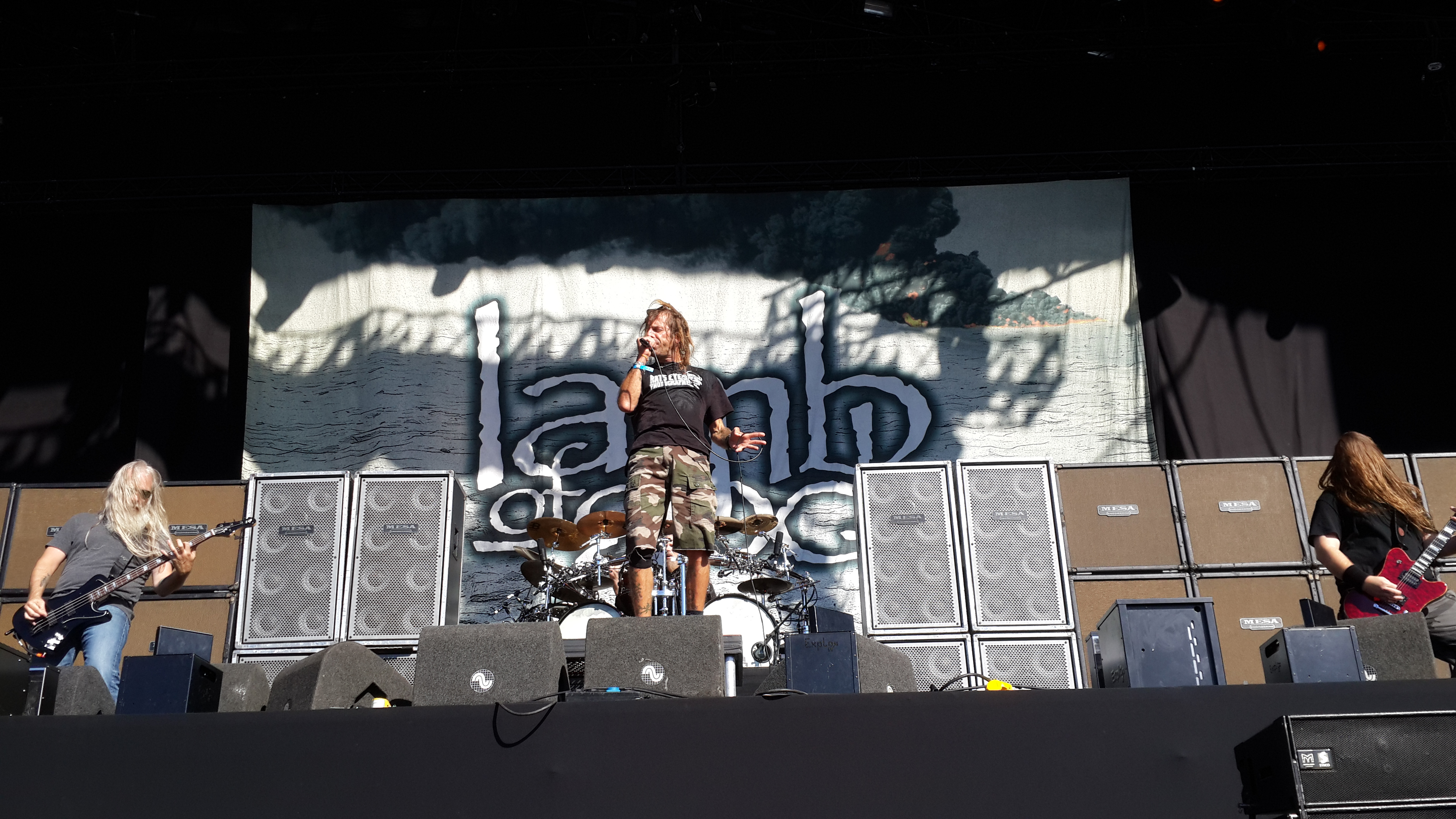 Lamb of God at FortaRock 2015 festival in Nijmegen.